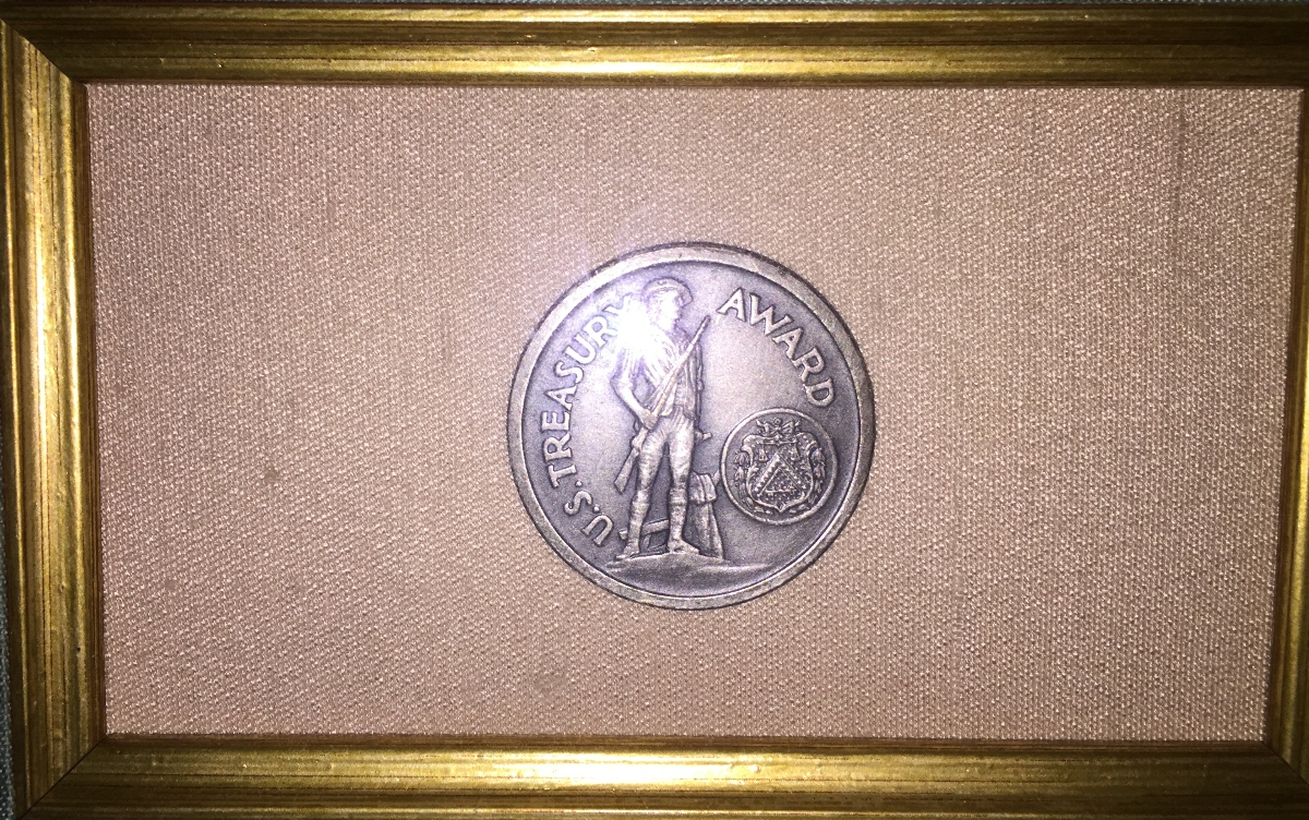 US Treasury Award for Arch Glass Mainous for his work in selling War Bonds during World War II.